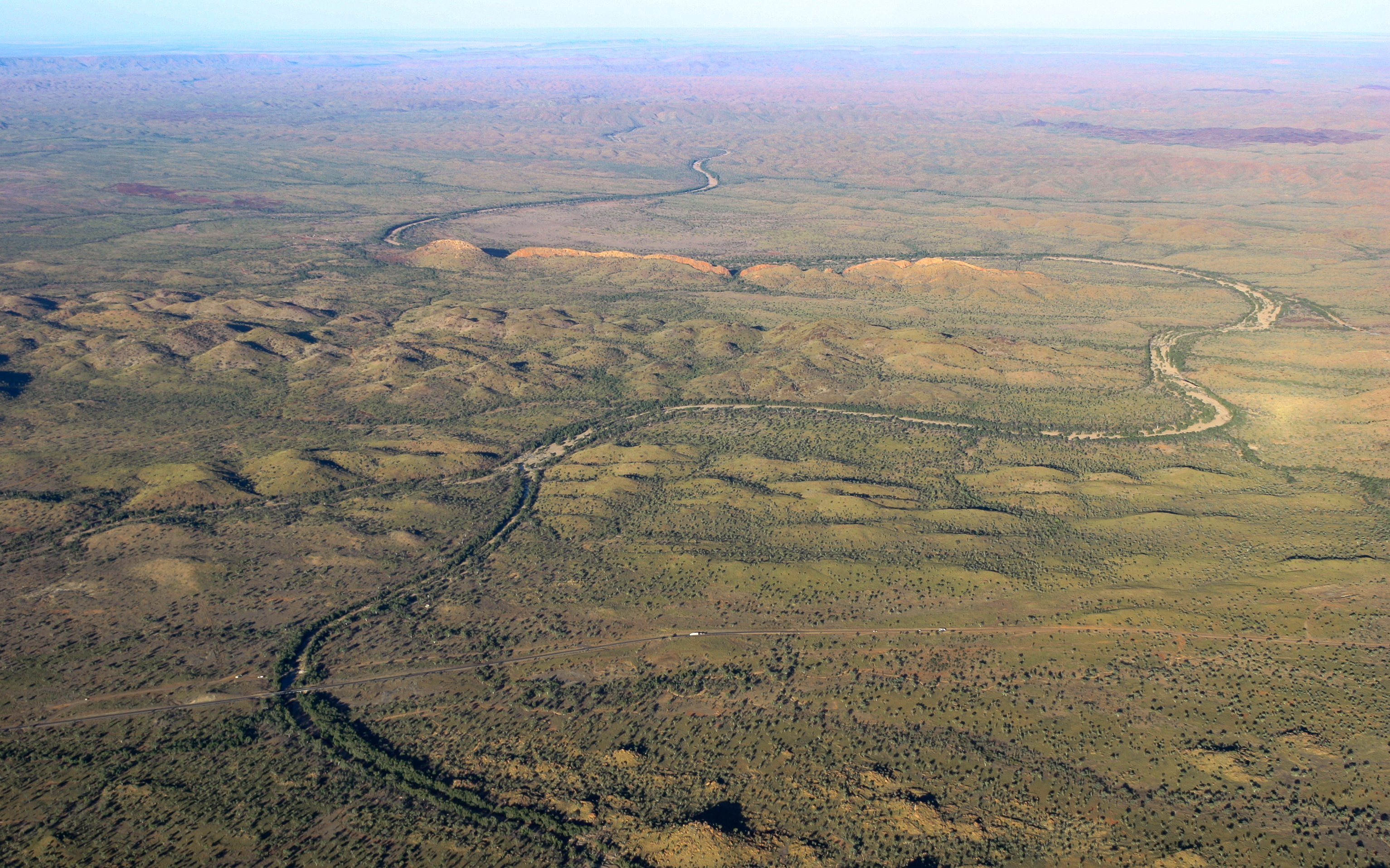 The Great Northern Highway passing the almost dryed-out LittlePanton River